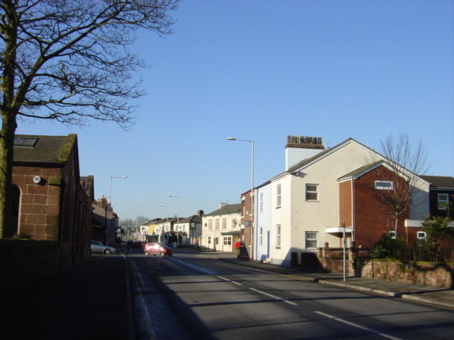 Rainhill village, Liverpool, Merseyside, England.